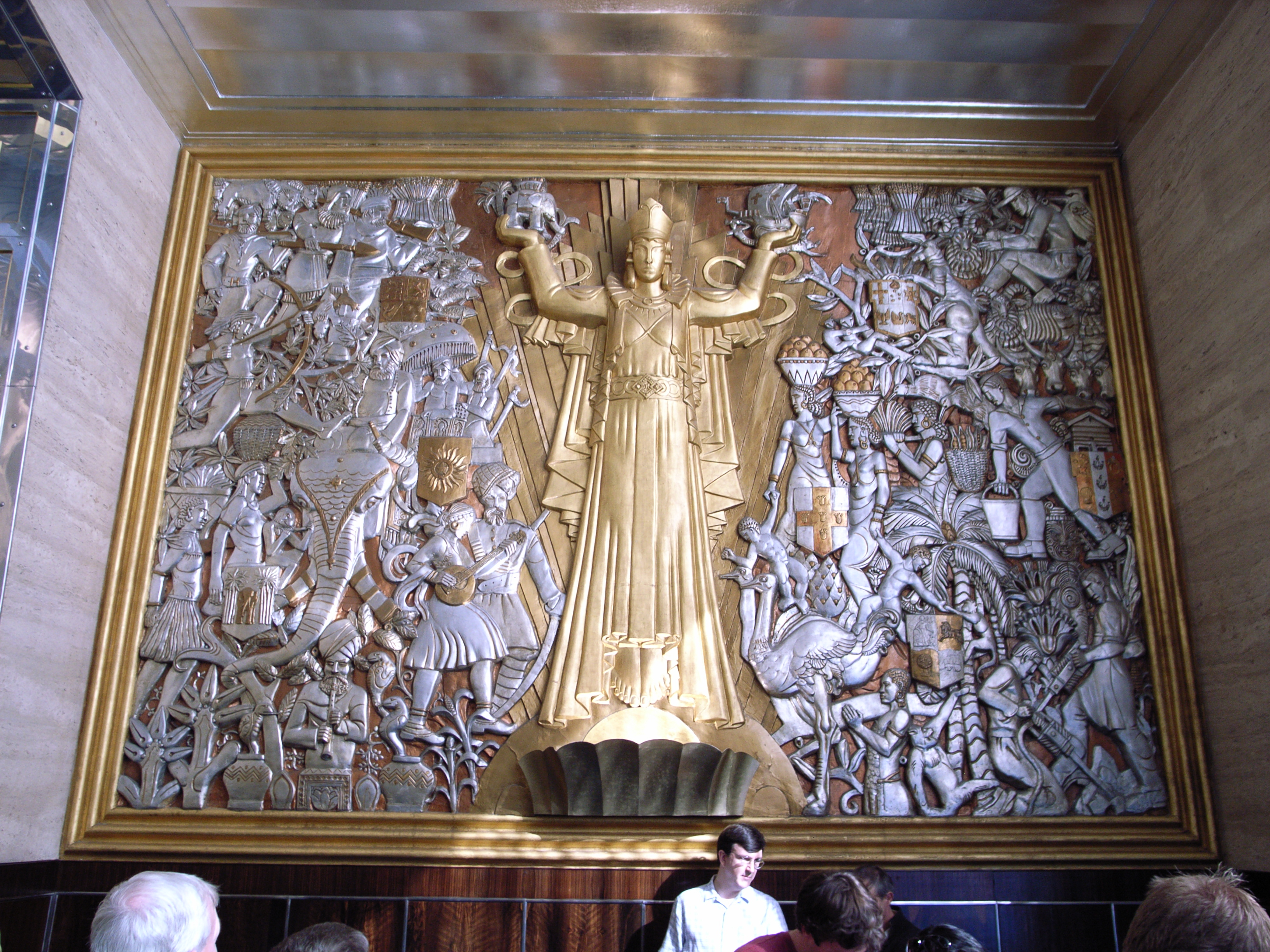 The Art Deco relief mural, by Eric Aumonier. In the lobby of 120 Fleet Street—the former Daily Express Building, in London.